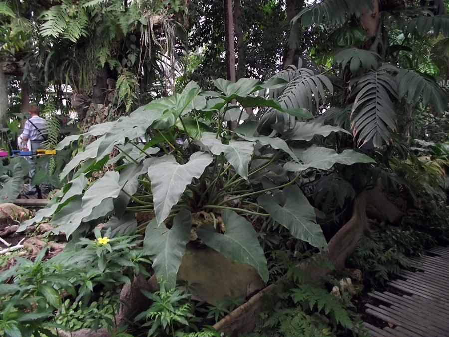 Philodendron simsii